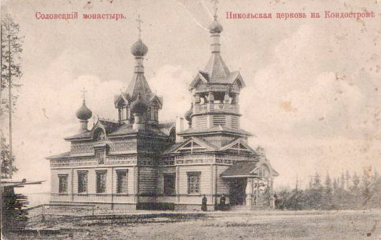 Church in Kondostrov. Antique postcard. Old Russian document.